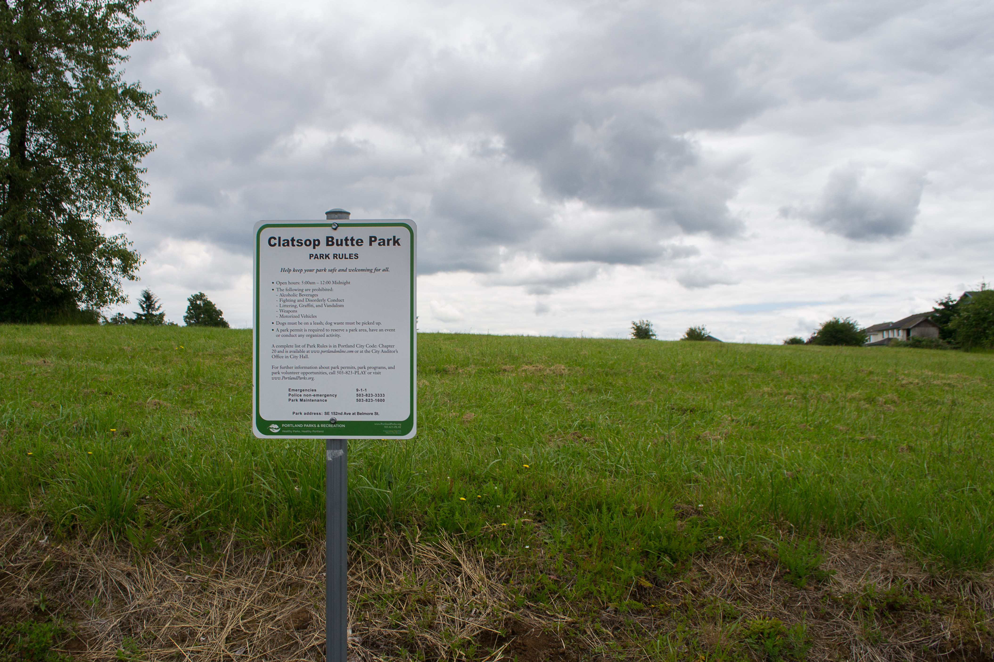 Clatsop Butte in Gresham, Oregon